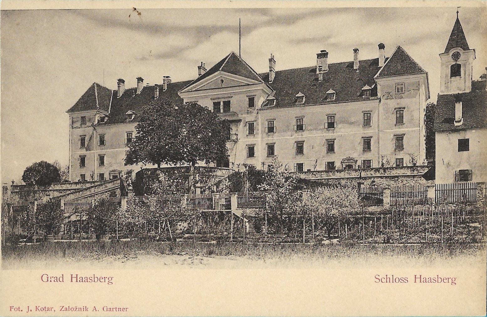 Postcard of Haasberg Mansion.